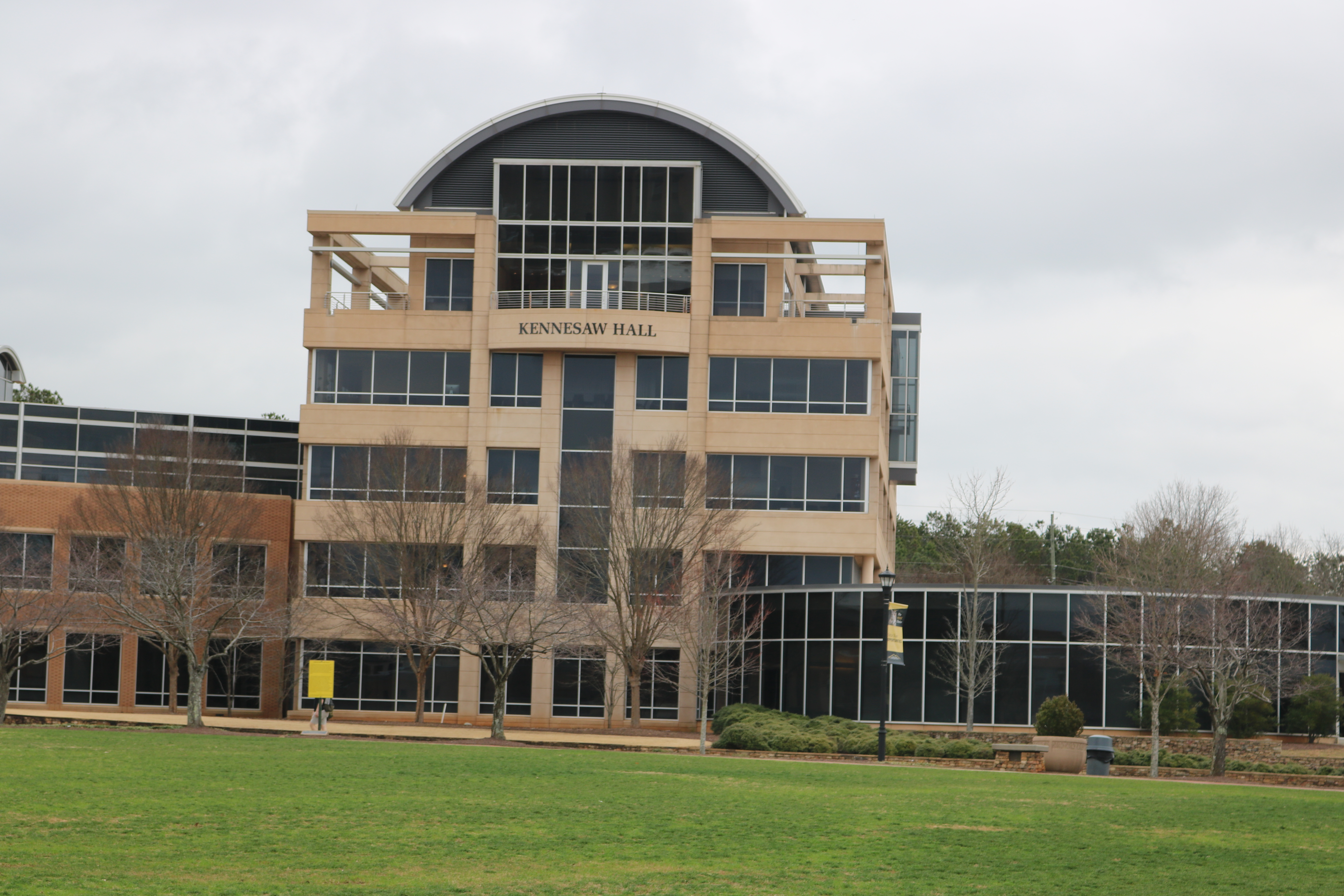 These photos are various shots of KSU, taken Feb 15, 2018